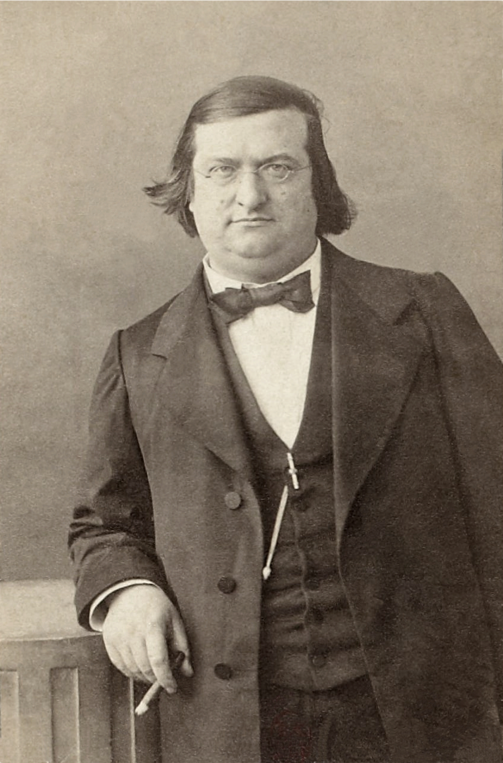 Louis Ulbach (1822- 1889), known as Ferragus, french journalist, novelist and playwright.